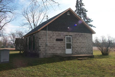 Voree Church, Voree, Wisconsin. Original photo by John Hamer. This is a meetinghouse of the Church of Jesus Christ of Latter Day Saints (Strangite), which is part of the Latter Day Saint movement, but is separate and distinct from the much larger and more well known The Church of Jesus Christ of Latter-day Saints (LDS Church).